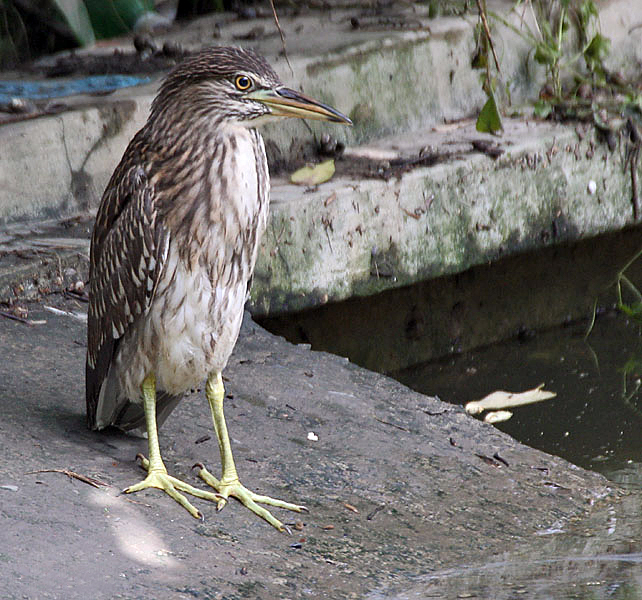 Black-crowned Night Heron Nycticorax nycticorax in Kolkata, West Bengal, India.